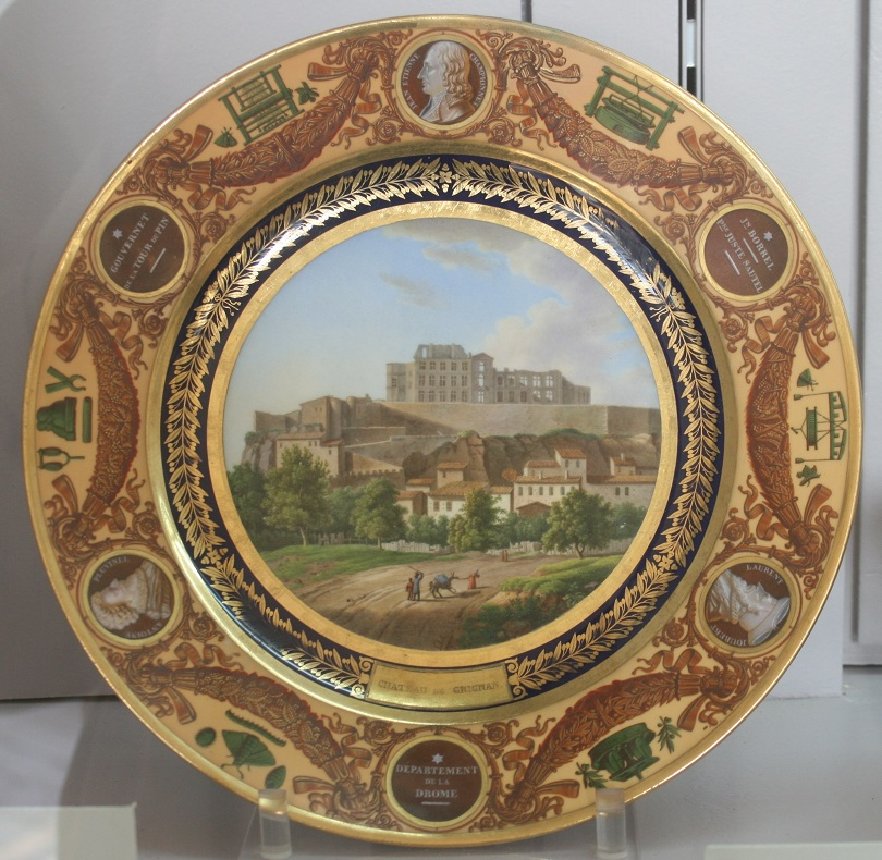 View on the village and castle of Grignan in Drôme department (France)